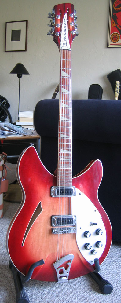 1991 Ric. 360/12-WB